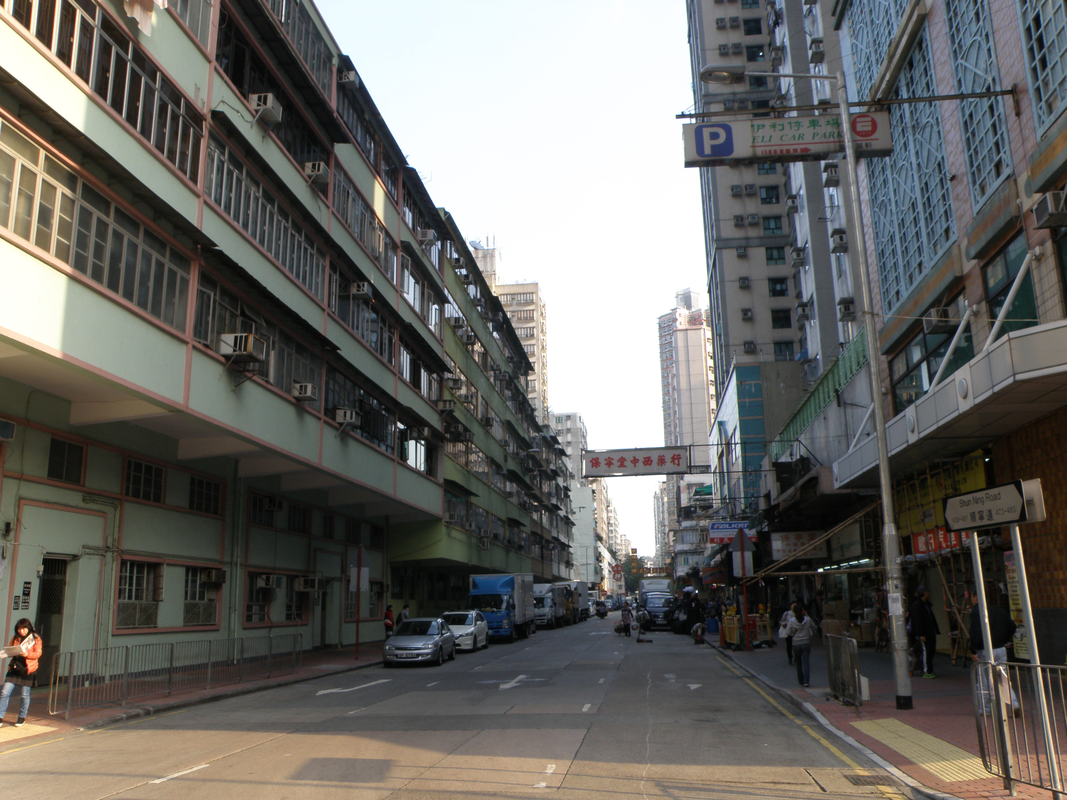 Shun Ning Road in Cheung Sha Wan, Hong Kong.